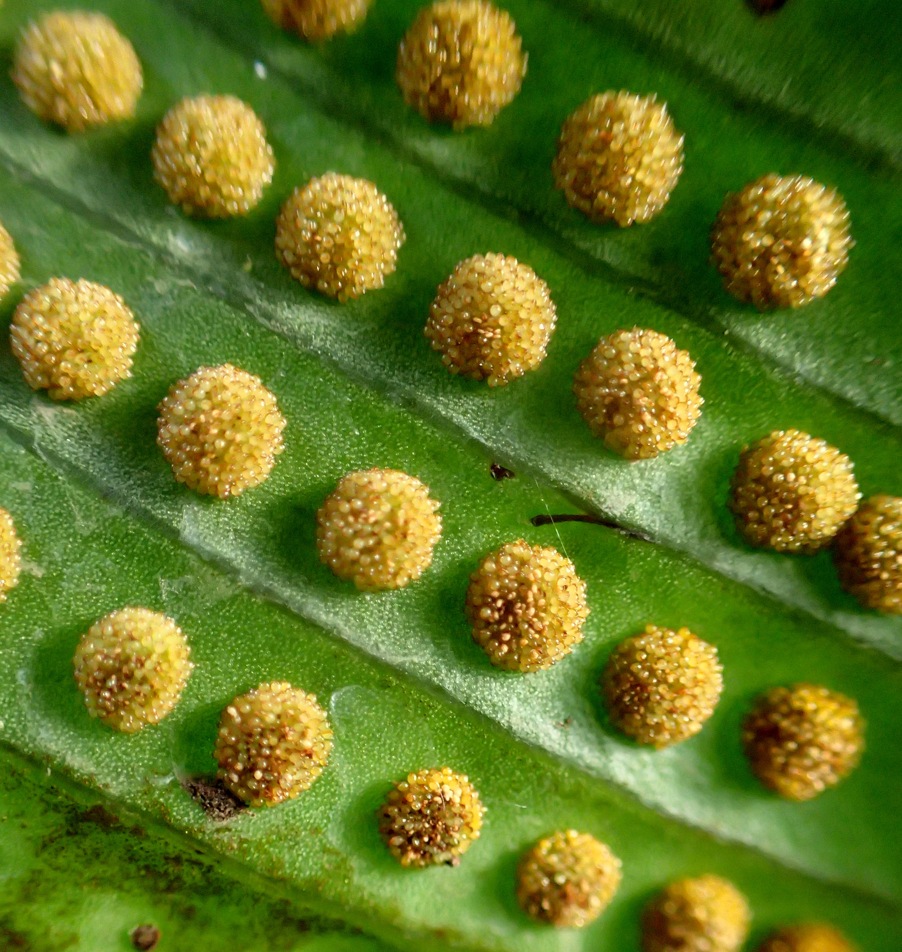 Niphidium crassifolium in Jardín de Aclimatación de la Orotava